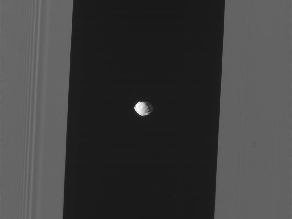 Image of Saturn's moon Pan between Saturn's ring parts, taken March 7, 2017 by NASA's Cassini spacecraft.